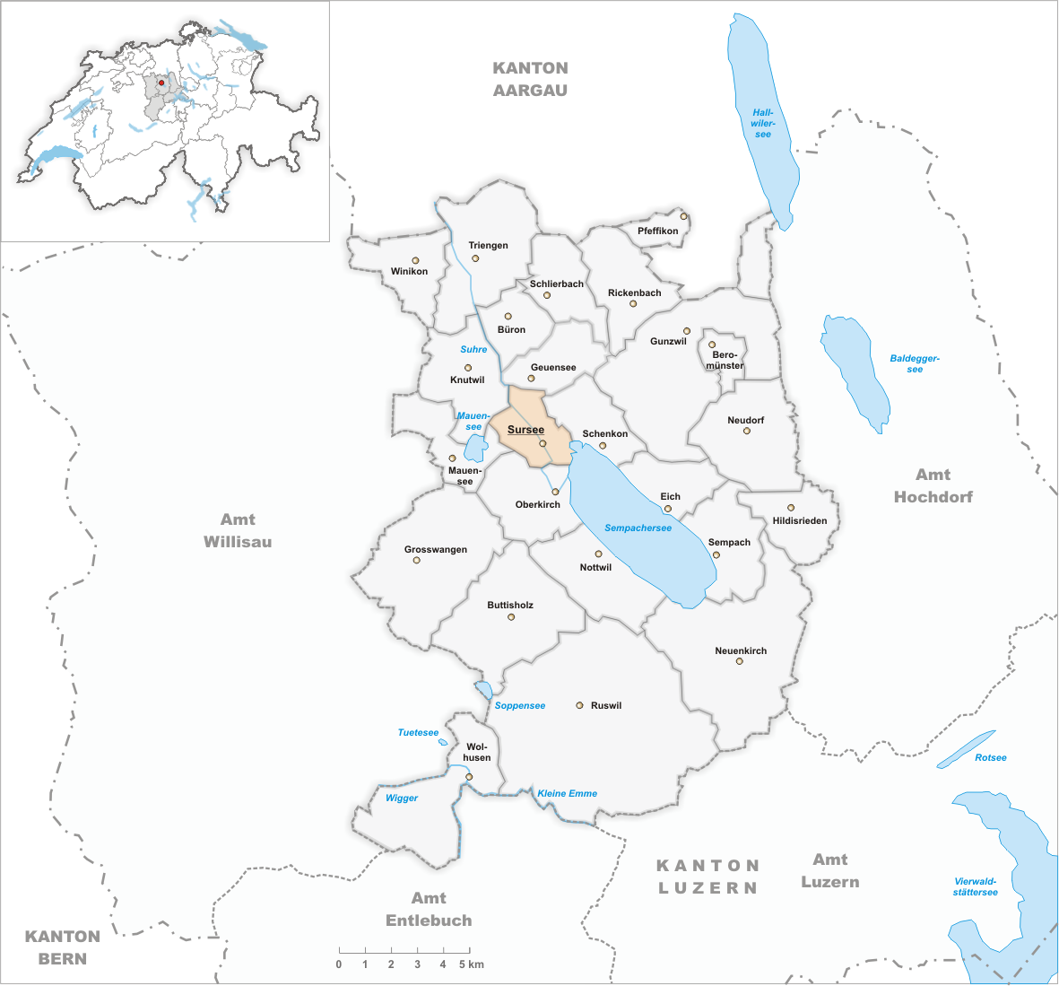 Municipality Sursee